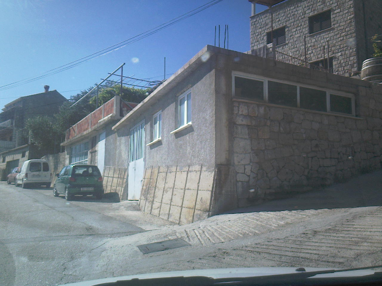 Gornje Obuljeno - village near Dubrovnik